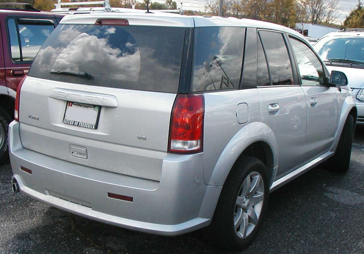 Saturn Vue RedLine photographed in USA.